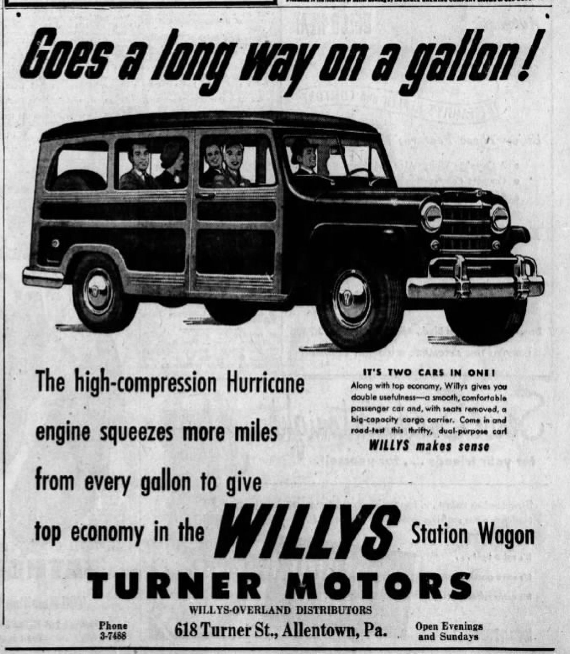 Turner Motors - 8 Feb MC - Allentown PA